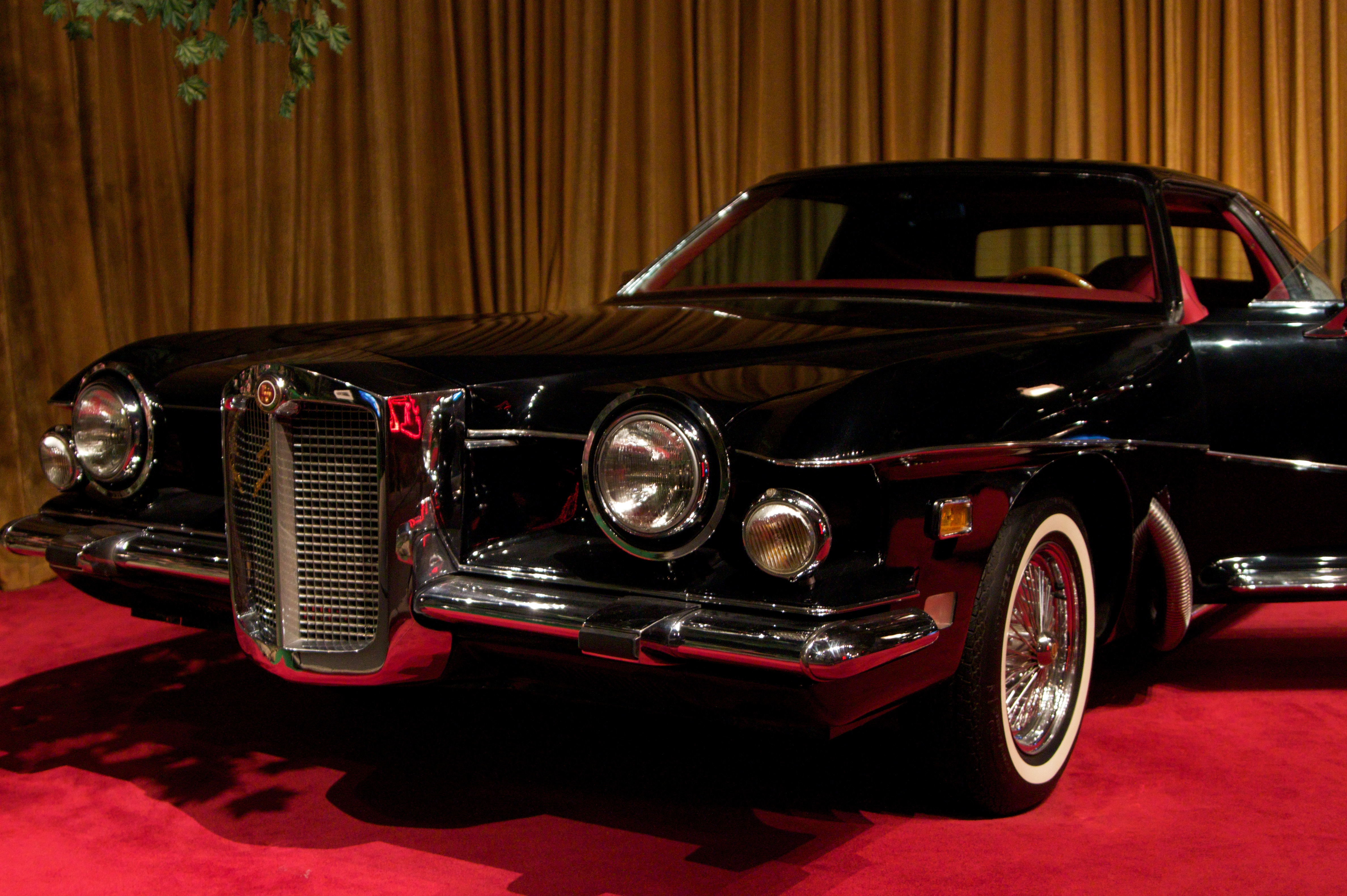 A trip to Graceland